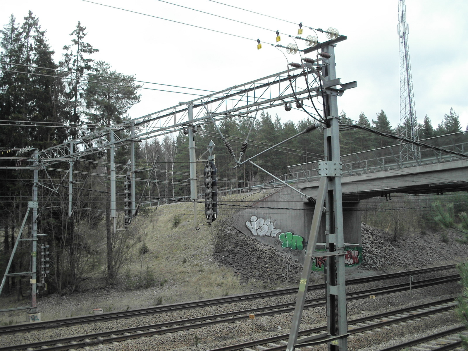 Center fixation, Swedish railway